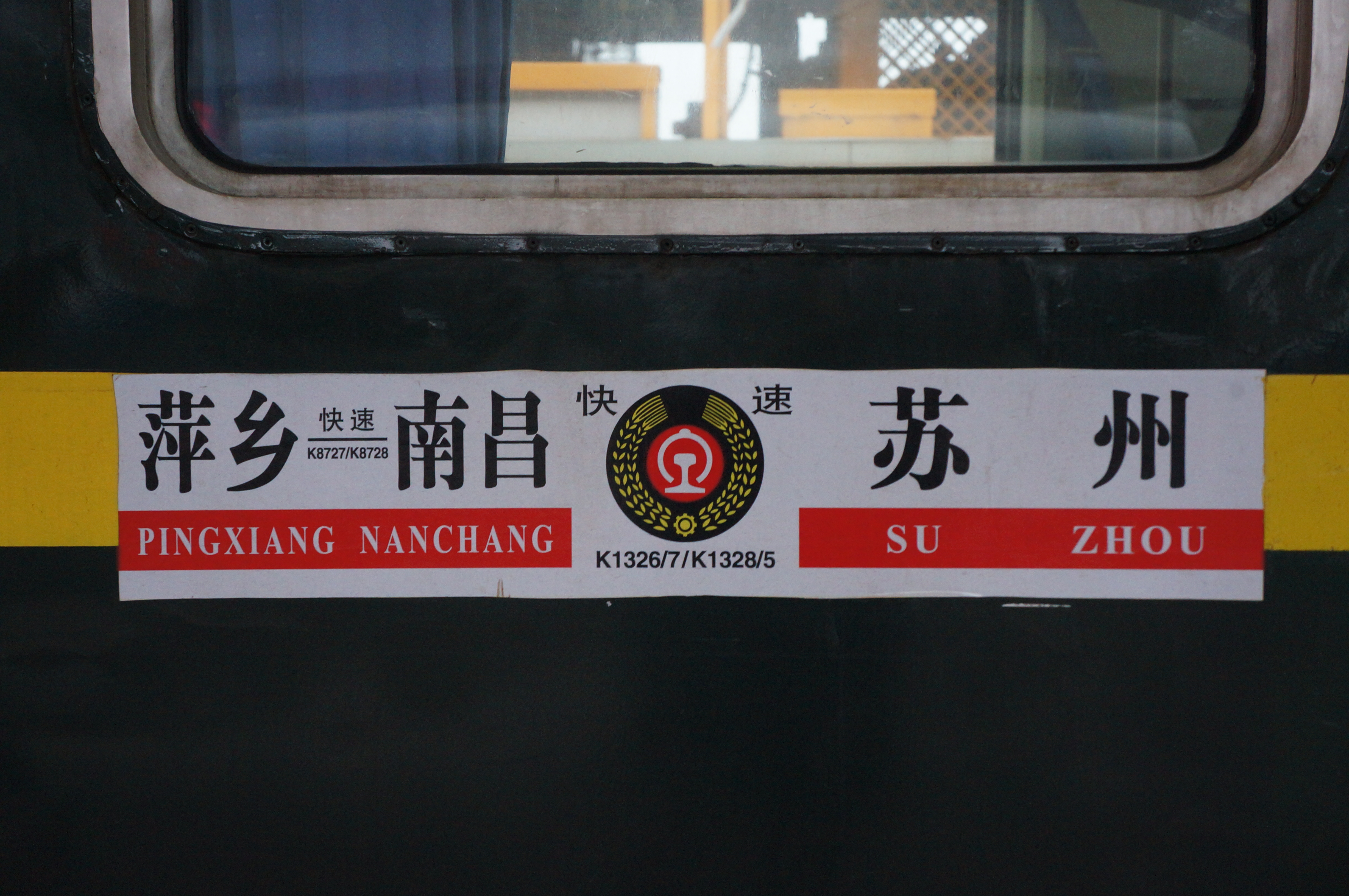 K1325,6,7,8 info board in 201612. Taken at Xiangtang Station as K8727